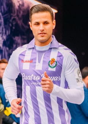 Real Valladolid - Valencia C. F., 38th fixture of the 2018-19 La Liga, May 18, 2019.